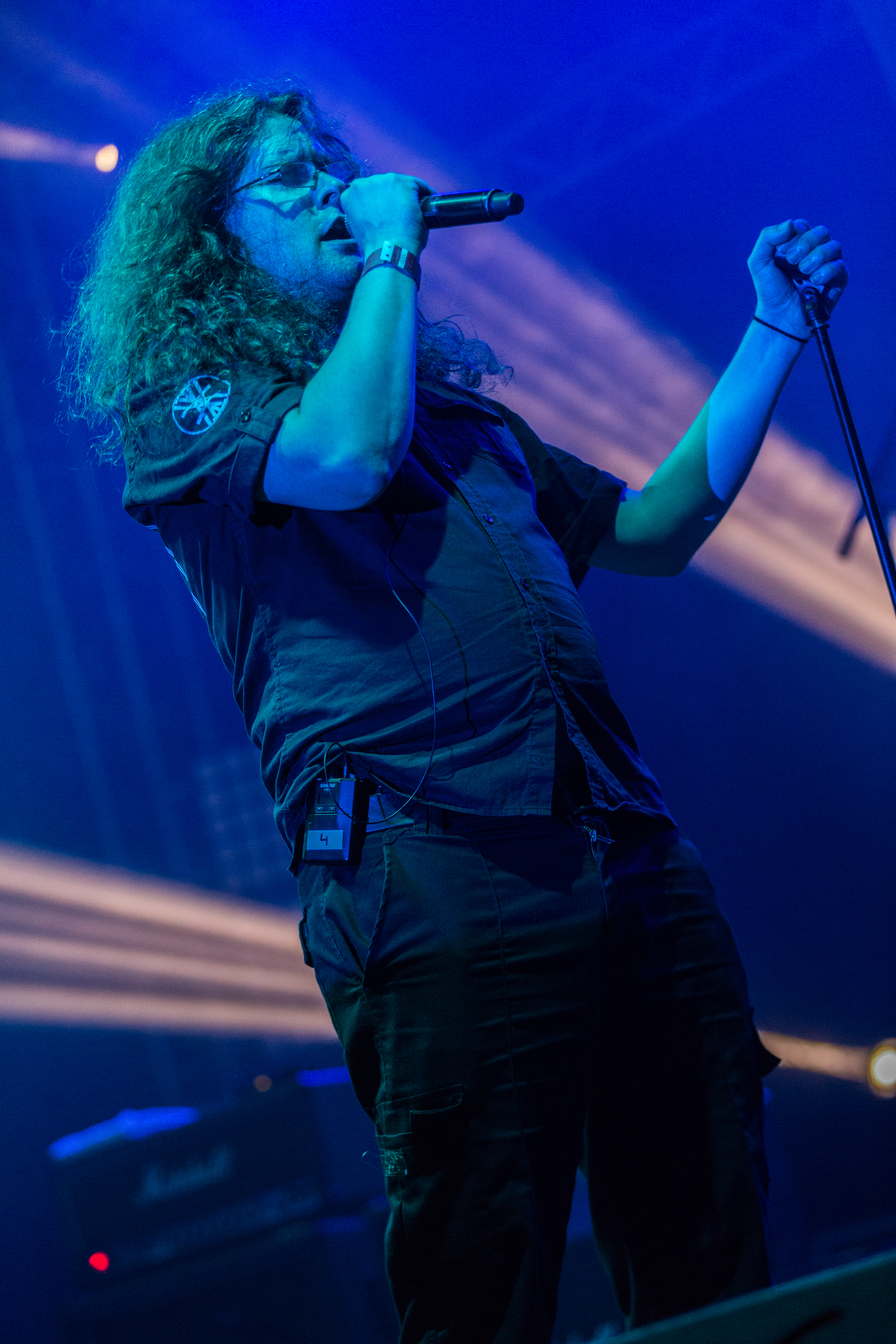 The Norwegian progressive metal band In the Woods at the Wave-Gotik-Treffen 2017 in Leipzig/Germany (Venue Kohlrabizirkus).